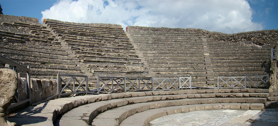 Small Theatre or Odeion, Pompeii, Campania, Italy.